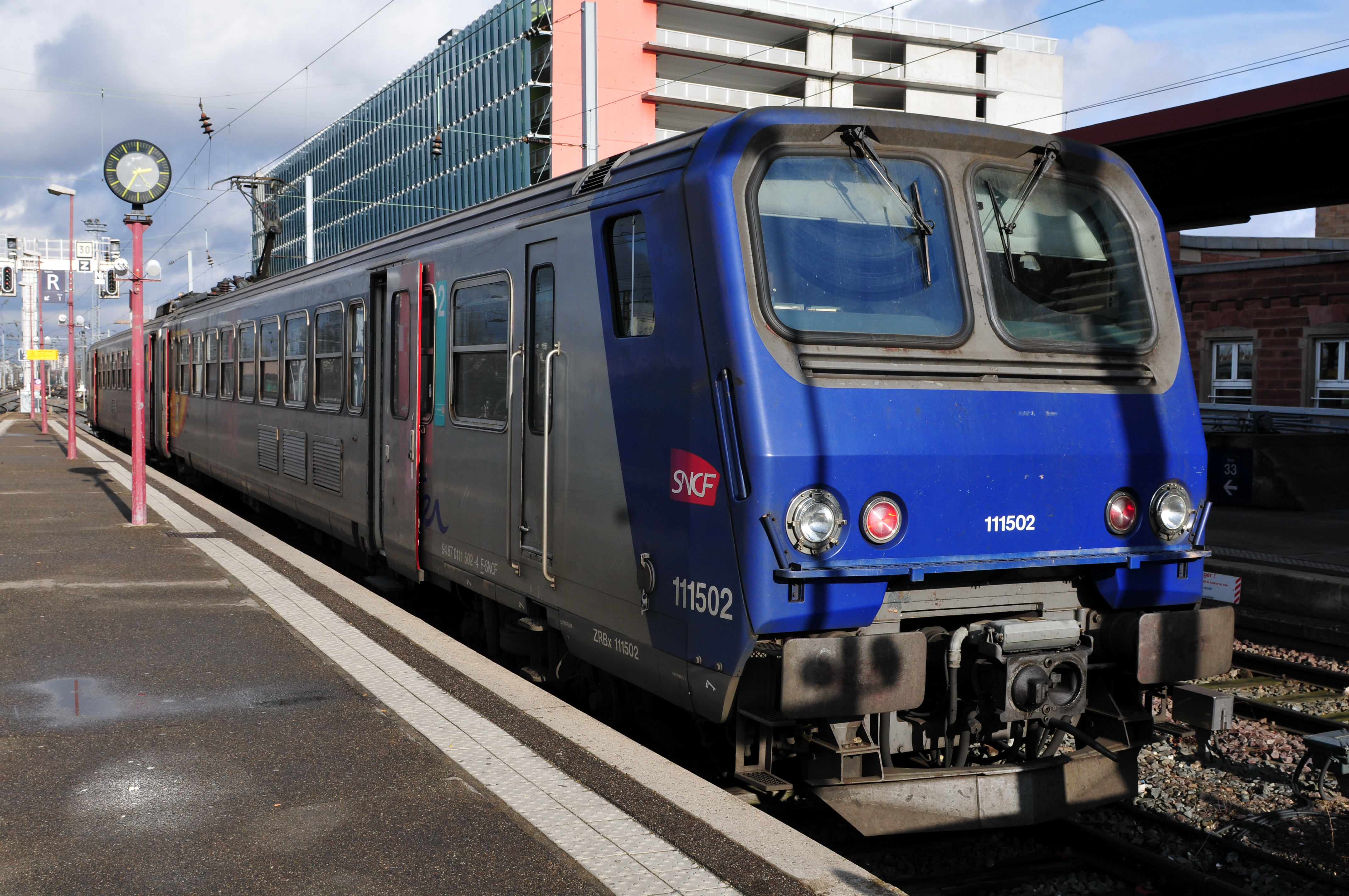 french Train SNCF Z 11500 European Parliament 2014 3.–7. February 2014, StrasbourgThis photo has been created within the project "WIKI loves parliaments / European Parliament". Usage and Help If you have any questions concerning this picture or how to use it, feel free to